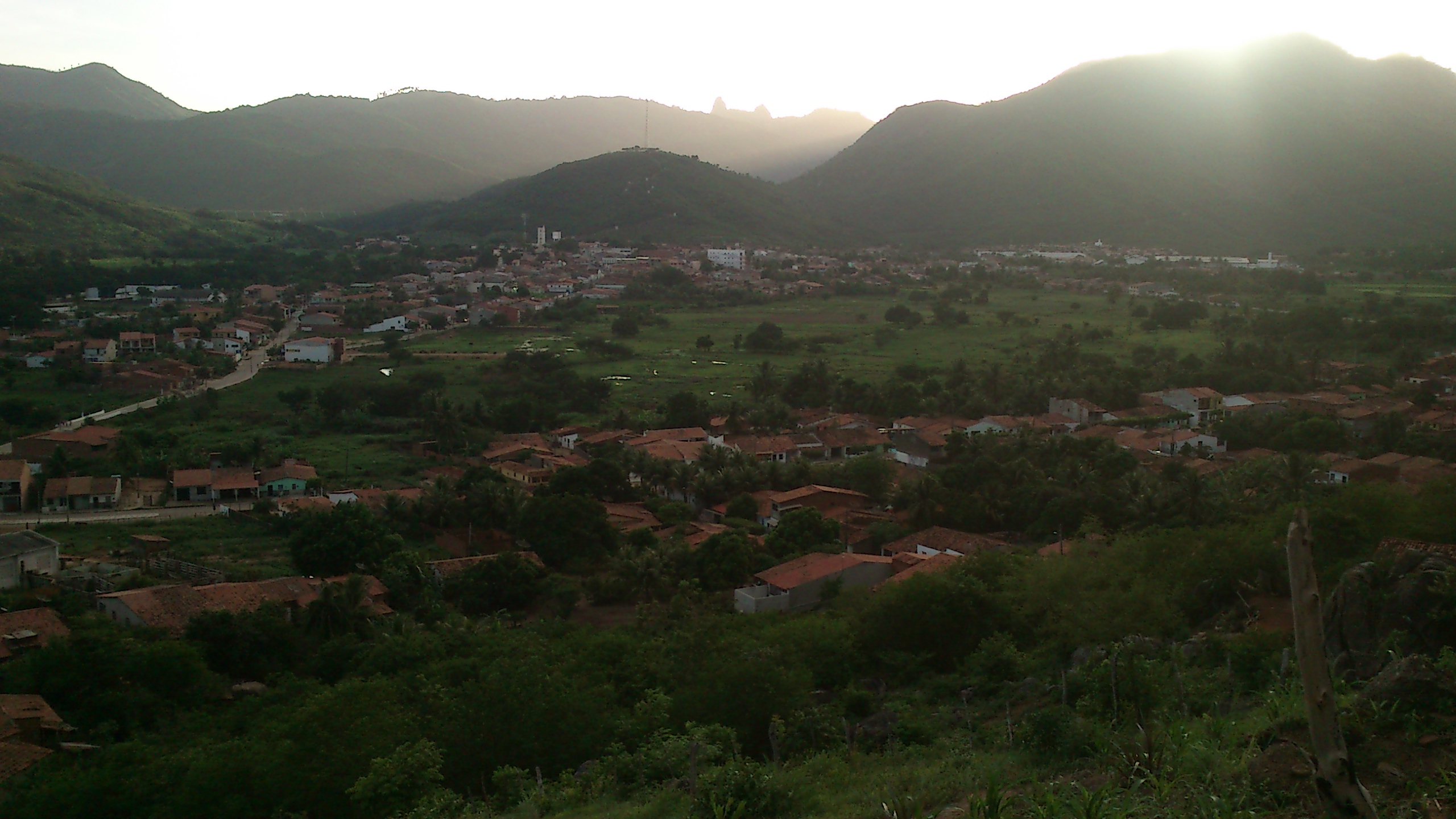 Aerial view of the city of Uruburetama, Ceará, Brazil.